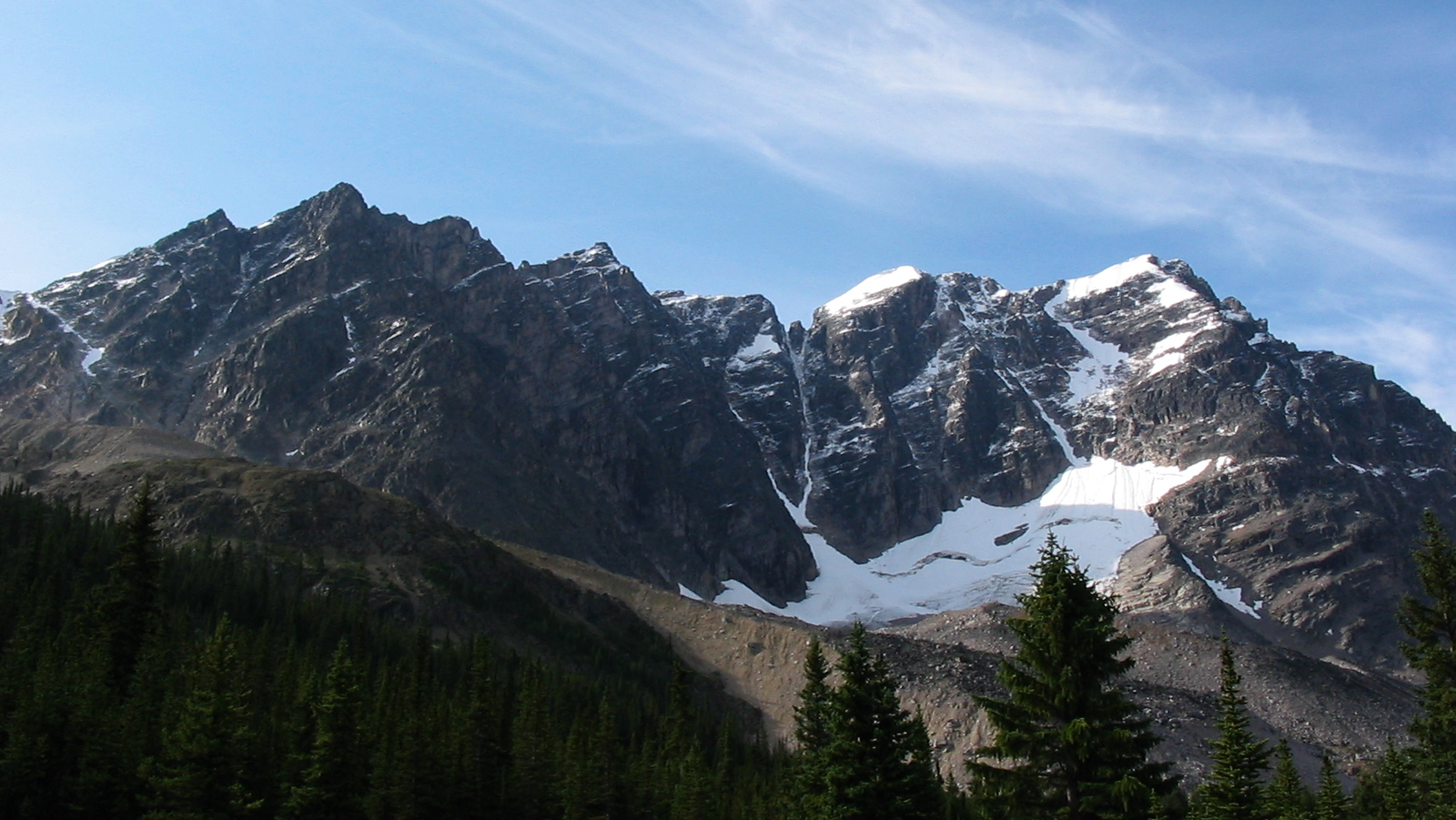 Xerxes Peak in Jasper National Park, Alberta Canada